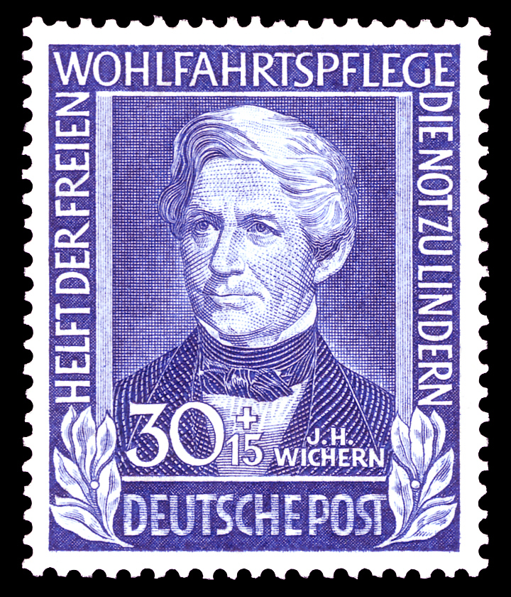 Social welfare stamp series 1949, Johann Hinrich Wichern (1808-1881) Ausgabepreis: 30+15 Pfennig First Day of Issue / Erstausgabetag: 14. Dezember 1949 Michel-Katalog-Nr: 120